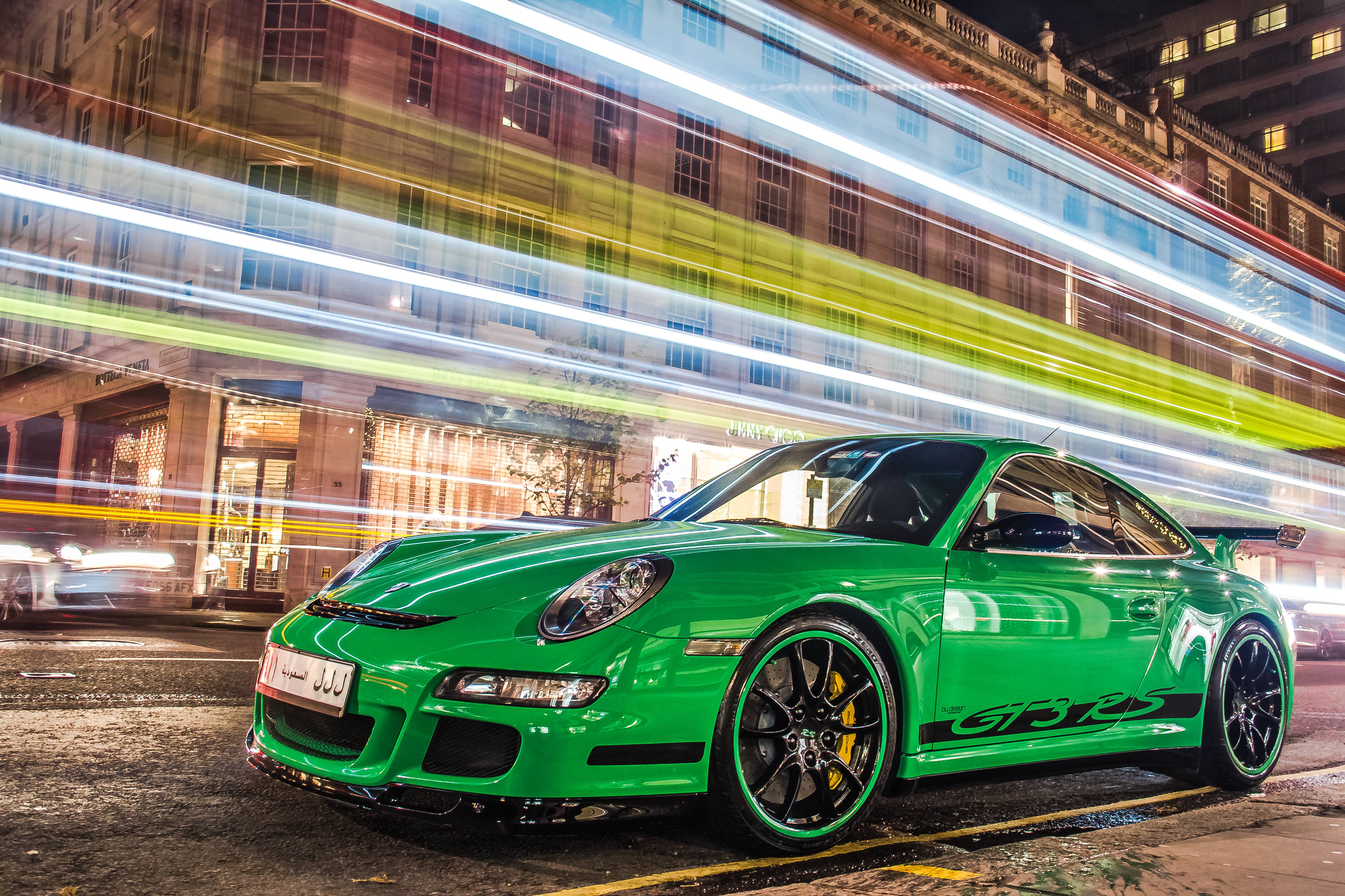 Finally i saw this one just before leaving. Really nice at night with trails.